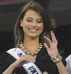 Stefanía Fernández, Miss Universe 2010 at US Open 2009.